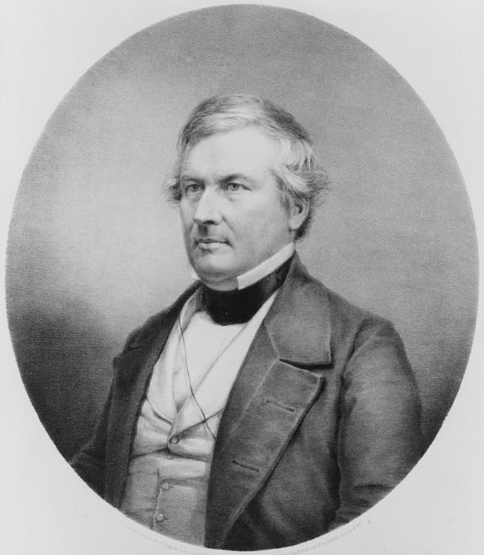 Millard Fillmore / Lithograph after a daguerreotype by Mathew Brady.